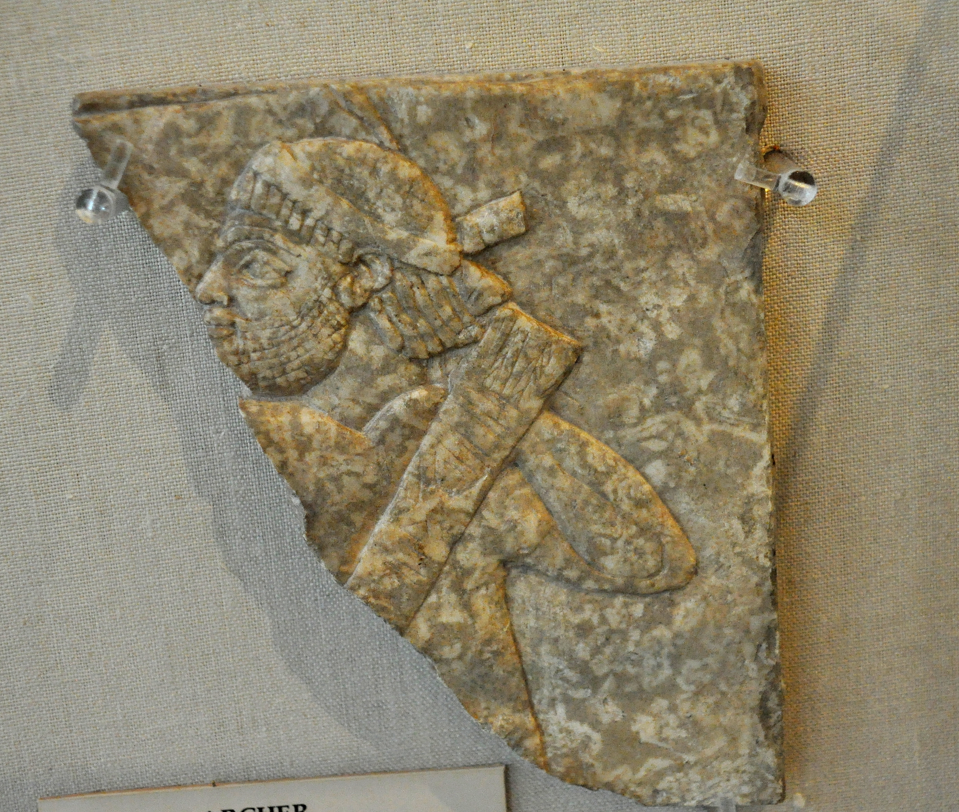 Elamite archer. An enemy of Assyria, identified by the headband, hairstyle, and trimmed beard. The Elamites in Western Iran were conquered by the Assyrians in 639 BCE. From Nineveh (Kuyunjik), Iraq. Reign of Ashurbanipal II, 668-627 BCE. The Burrell Collection, Glasgow, UK.